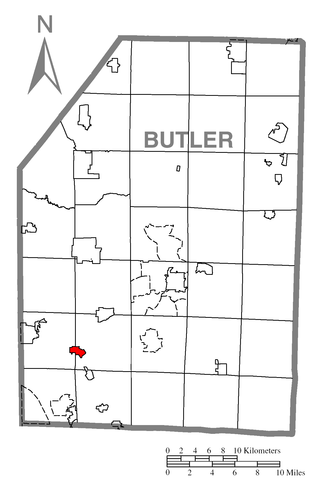 A map of Butler County showing Evans City, Pennsylvania (alternate) highlighted on the map.